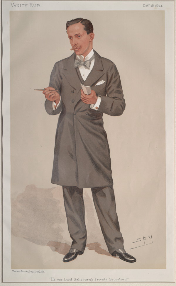 Men of the Day No.599: Caricature of The Hon Schomberg Kerr Mcdonnell CB. Son of the Earl of Antrim [1]. Caption reads: "He was Lord Salisbury's Private Secretary"